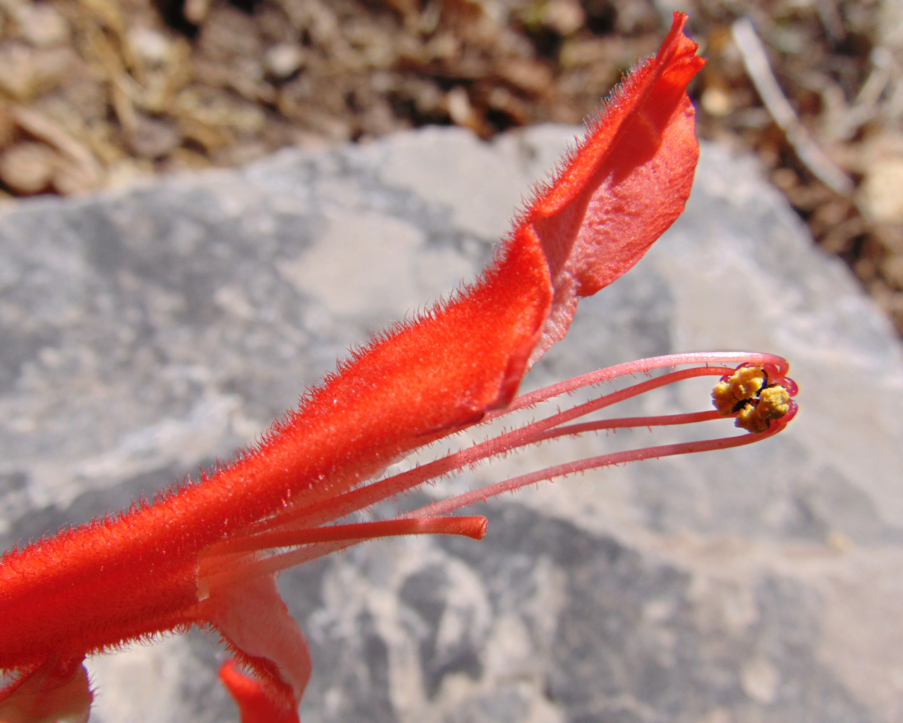 Sinningia cardinalis flower dissected to reveal the connate anthers and the style + stigma